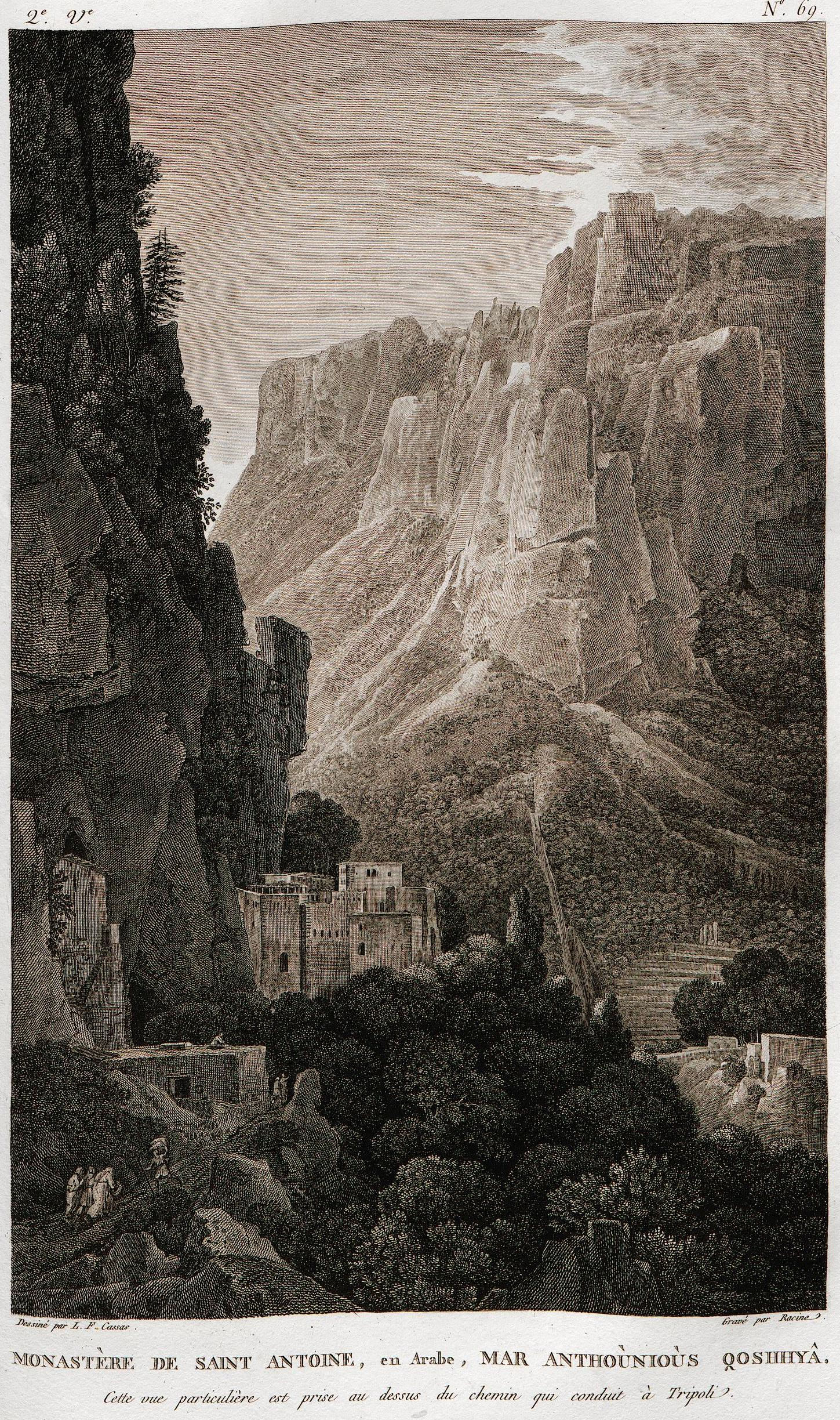 Louis-François Cassas From: Voyage pittoresque de la Syrie, de la Phoenicie, de la Palaestine et de la Basse Aegypte: ouvrage divisé en trois volumes contenant environ trois cent trente planches